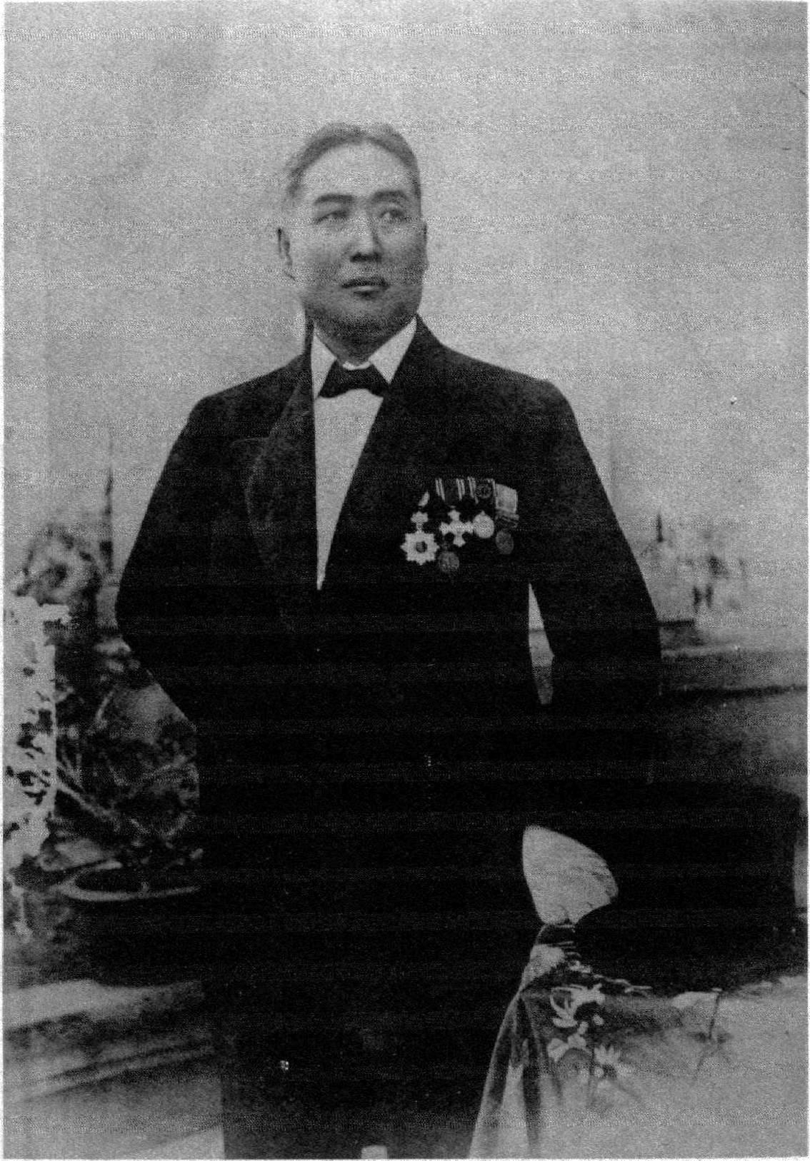 Koo Hsien-jung in 1914